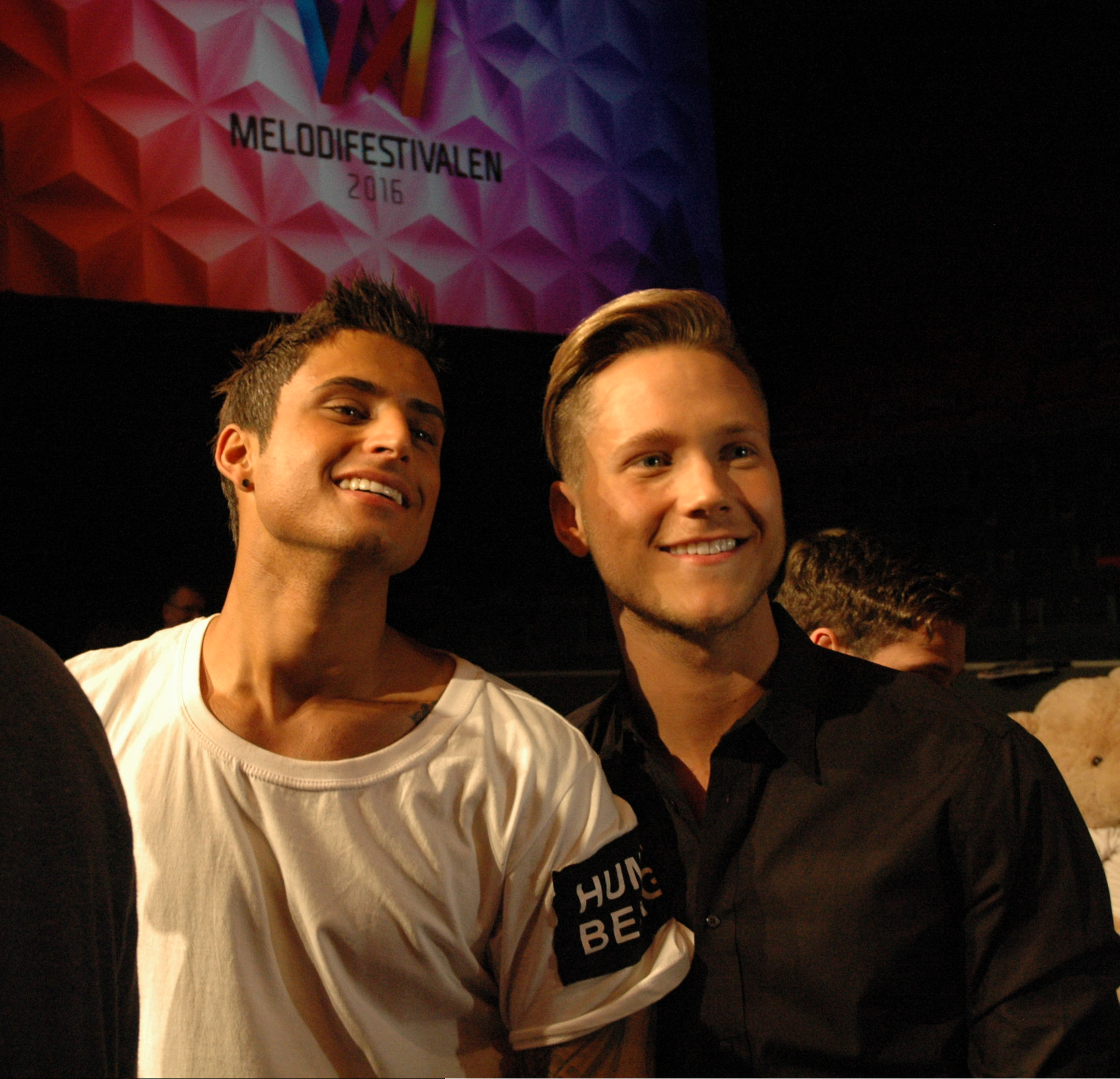 Swedish duo Samir & Victor after first semi-final of Melodifestivalen 2016